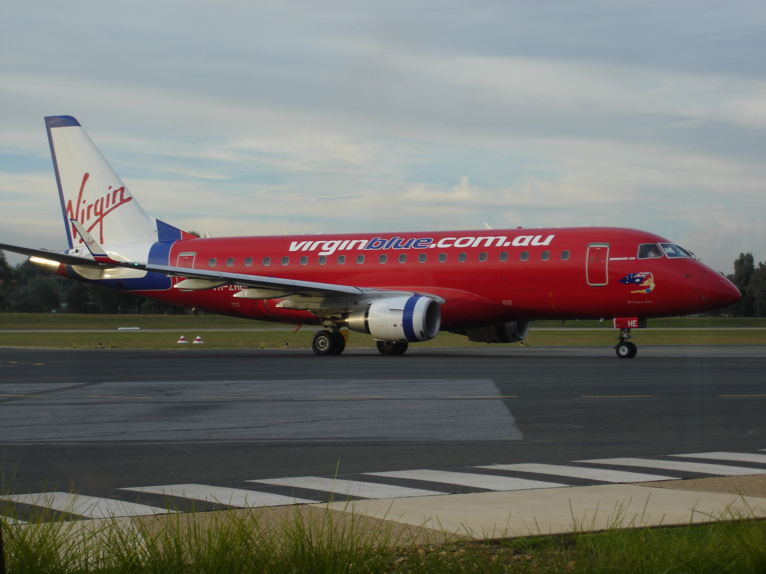 I took this picture myself. It is of a Virgin Blue Embraer 170 taxiing to its stand at Albury Airport on 14 April 2010.